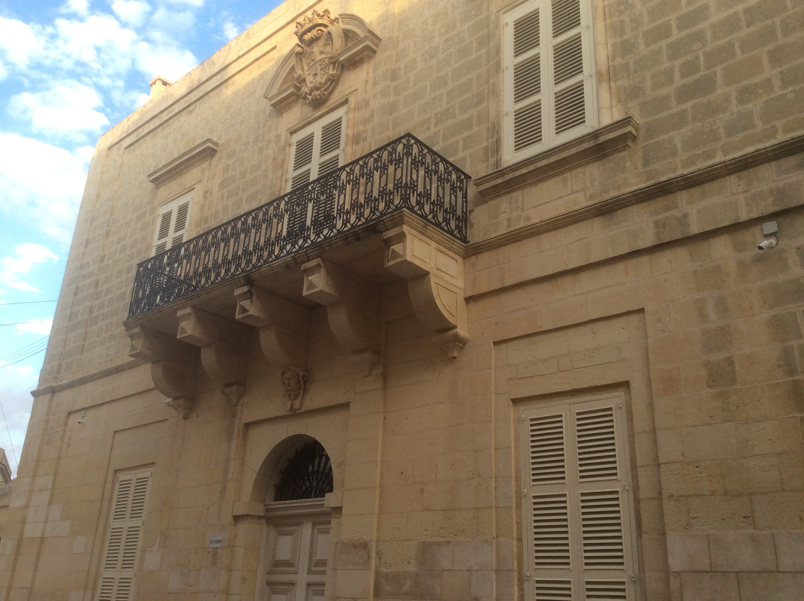 Villa Gourigon